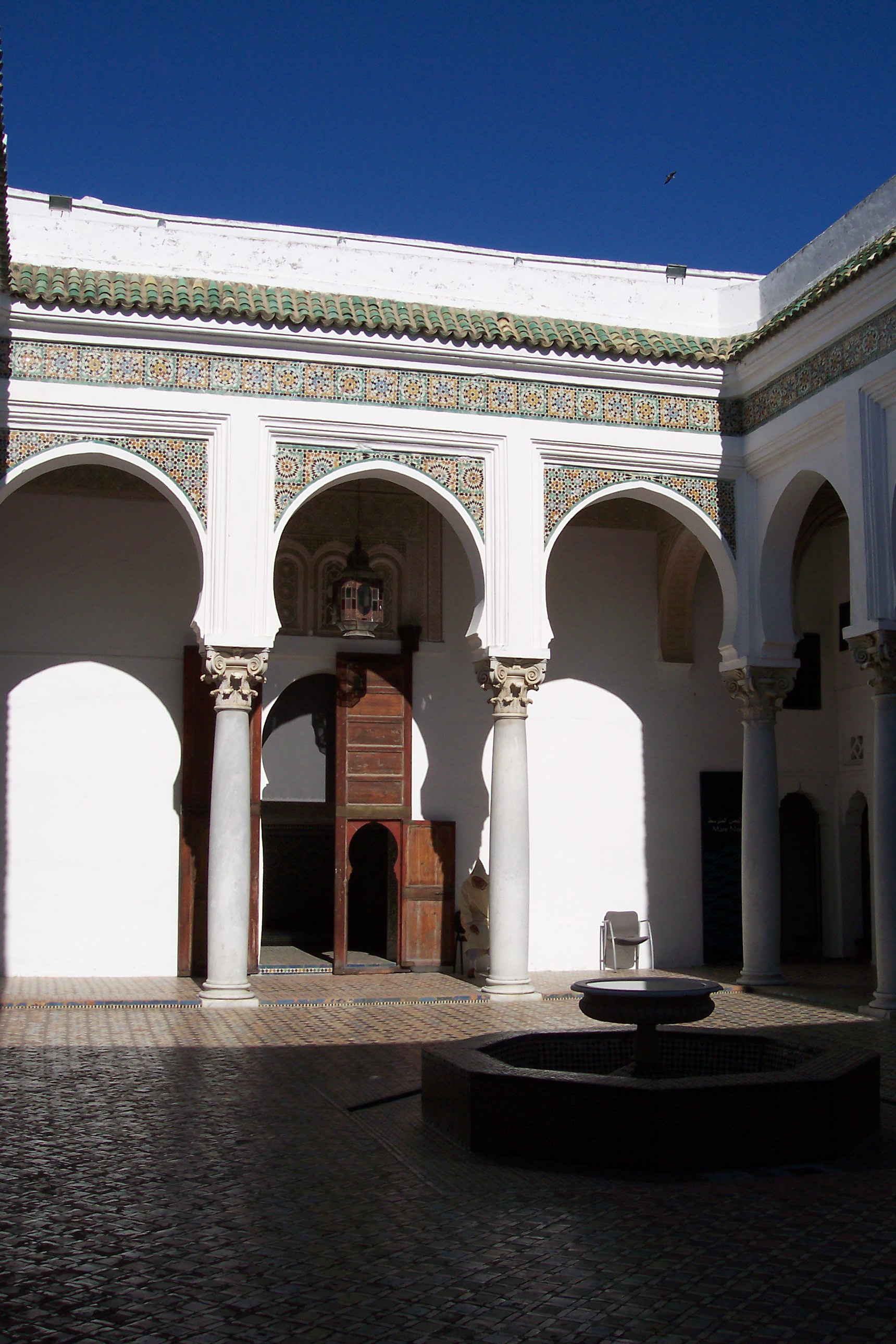 Tangier city museum enclave